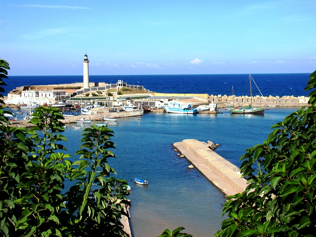 Cherchell's Port - Algeria's little town